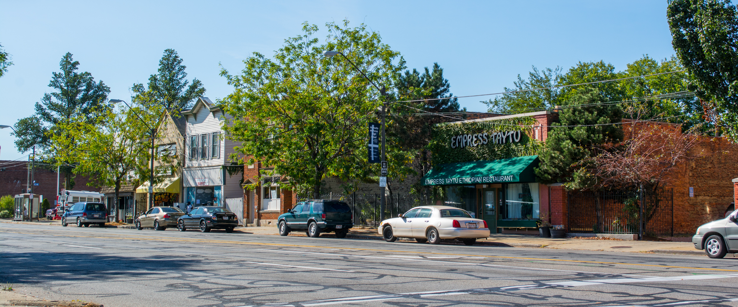 Looking east down the 6100 block of St. Clair Avenue in Cleveland, Ohio, in the United States.